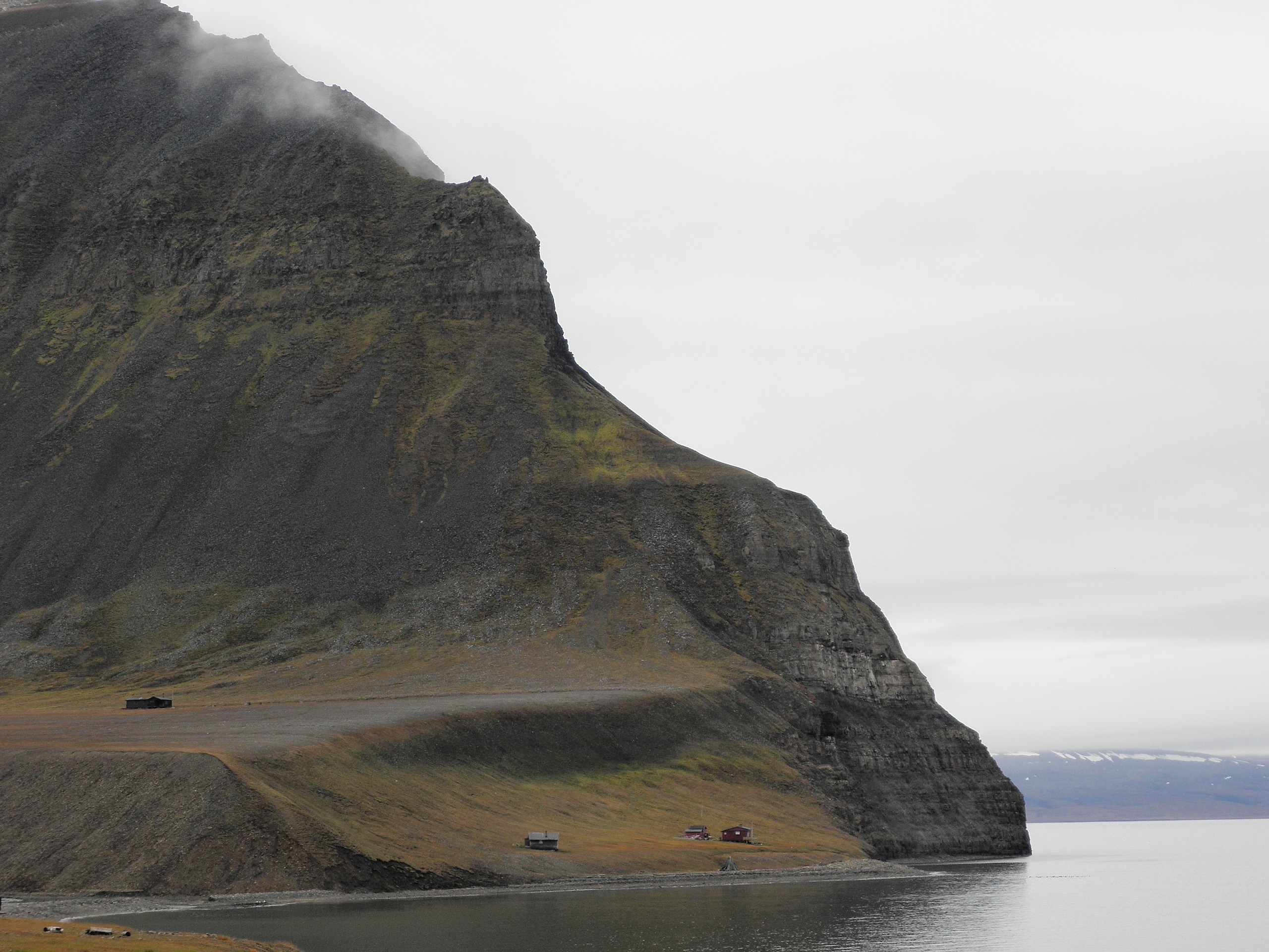 Svalbard, bird cliff.